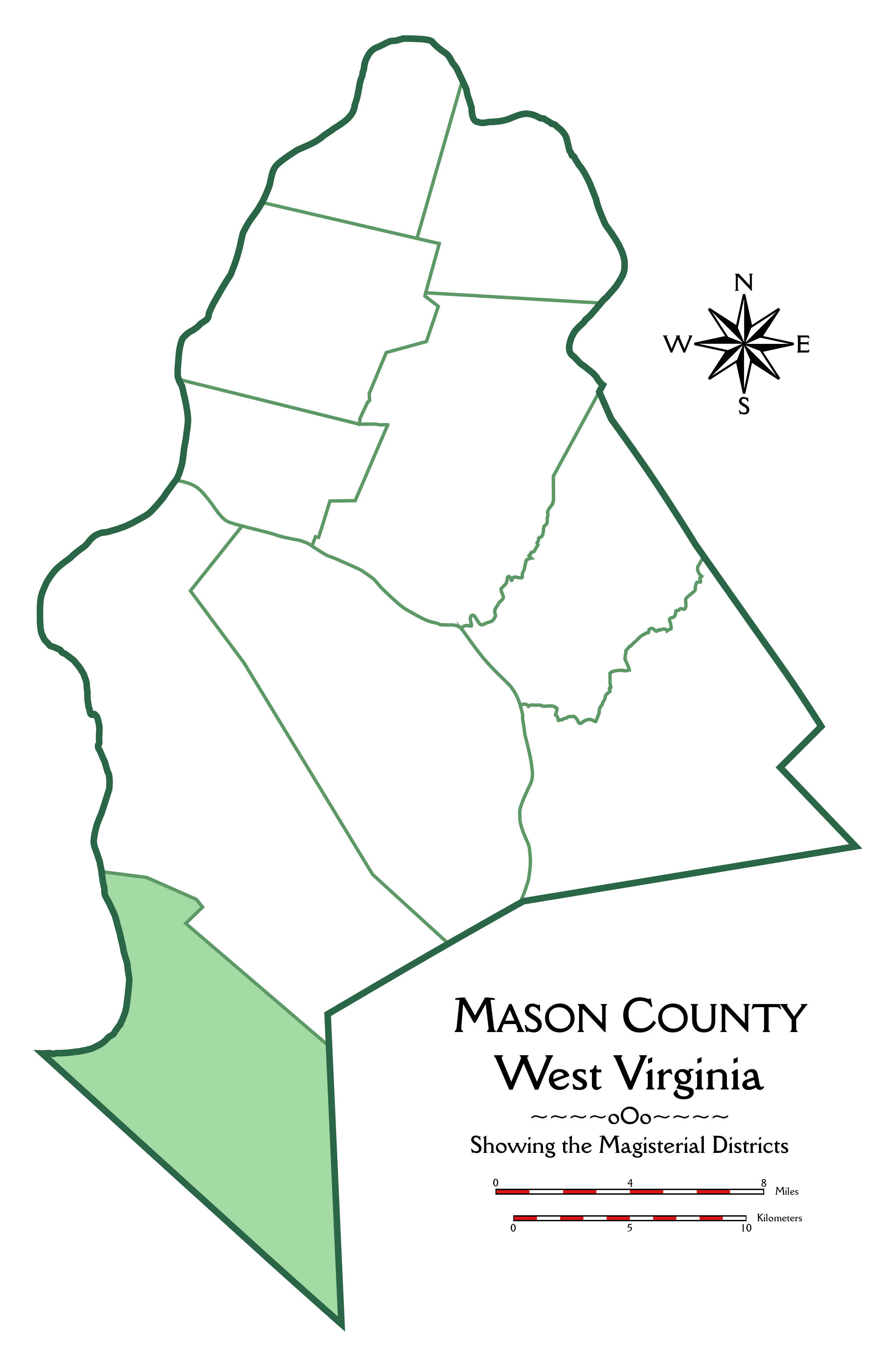 This is an outline map of Mason County, West Virginia, showing the boundaries of the magisterial districts. Hannan District is highlighted.